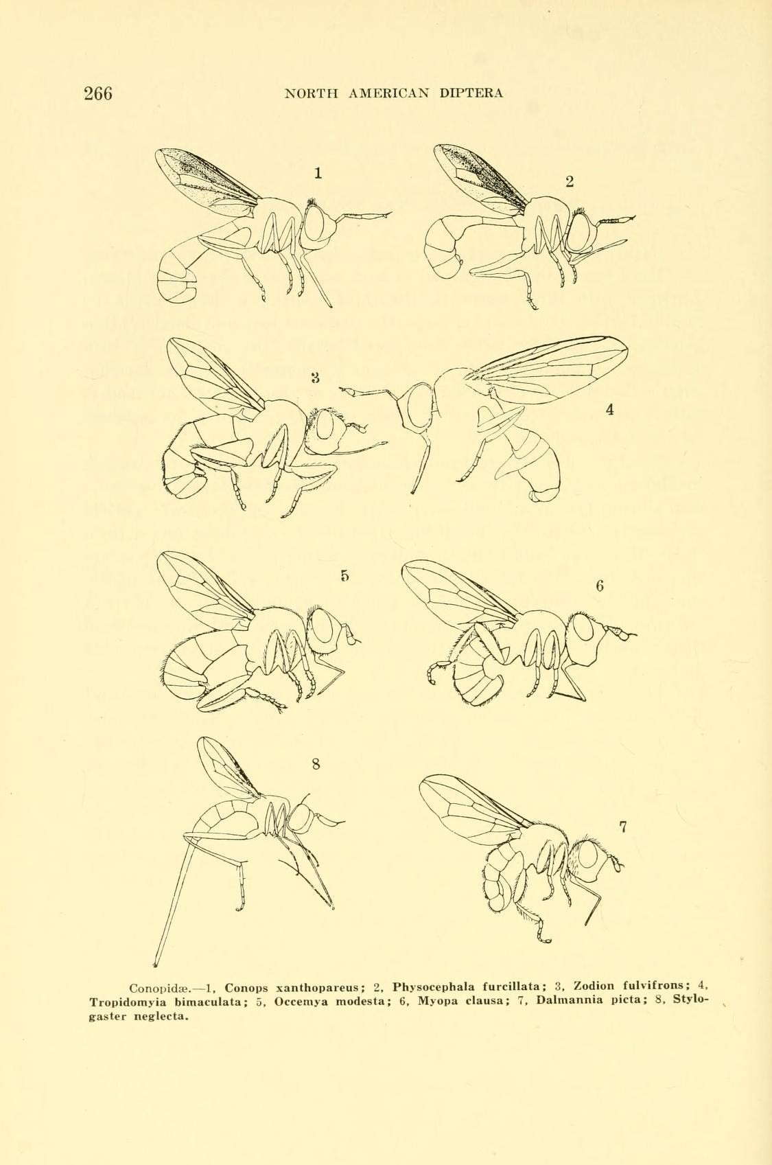 Charles Howard Curran , 1934 The families and genera of North American Diptera C.H. Curran in [New York] . Conopidae Illustration from S.W. Williston Manual of North American Diptera (1888, 1896, 1908